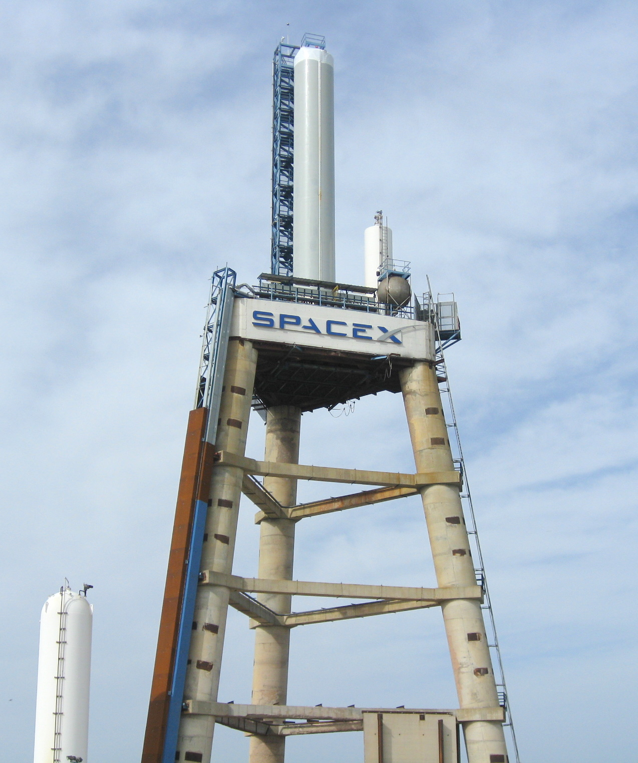 A Falcon 9 first stage tank sits atop SpaceX's big test stand before a 9-engine test at the company's Rocket Development Facility in McGregor, Texas.